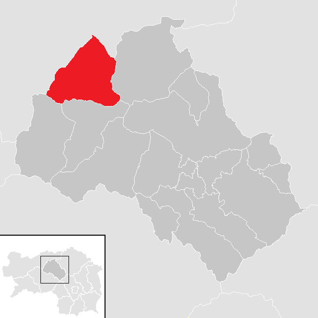 District Leoben